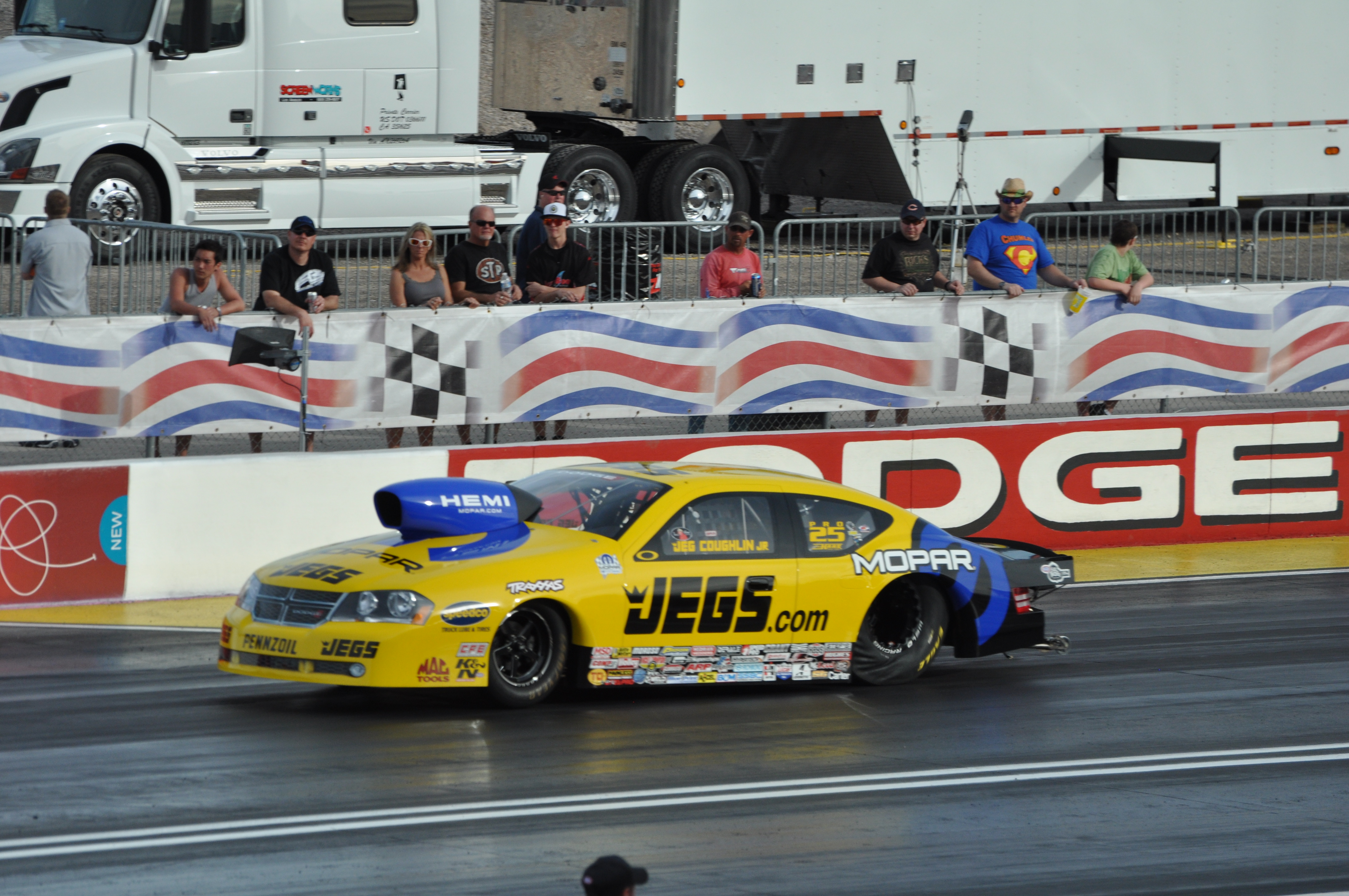 Jeg Jr, racing his Jegs Mopar Dodge Avenger at LVMS April 1st 2012